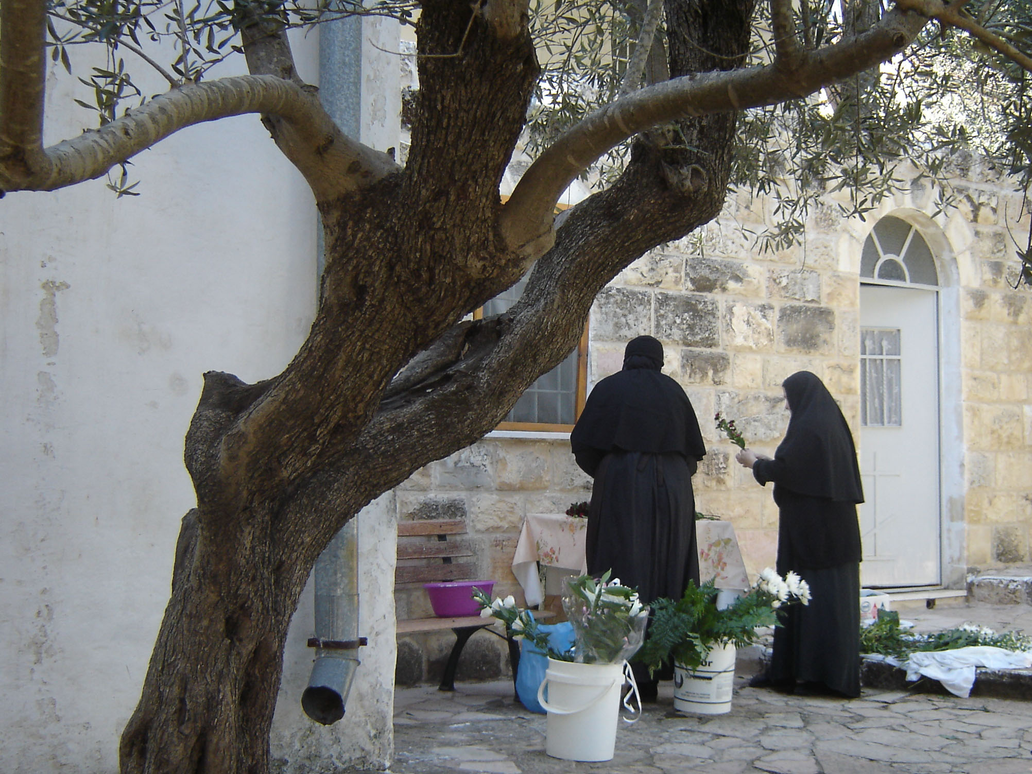 2_nuns_arranging_flowers Russian Monetary Gorney near Ein Karem, Jerusalem